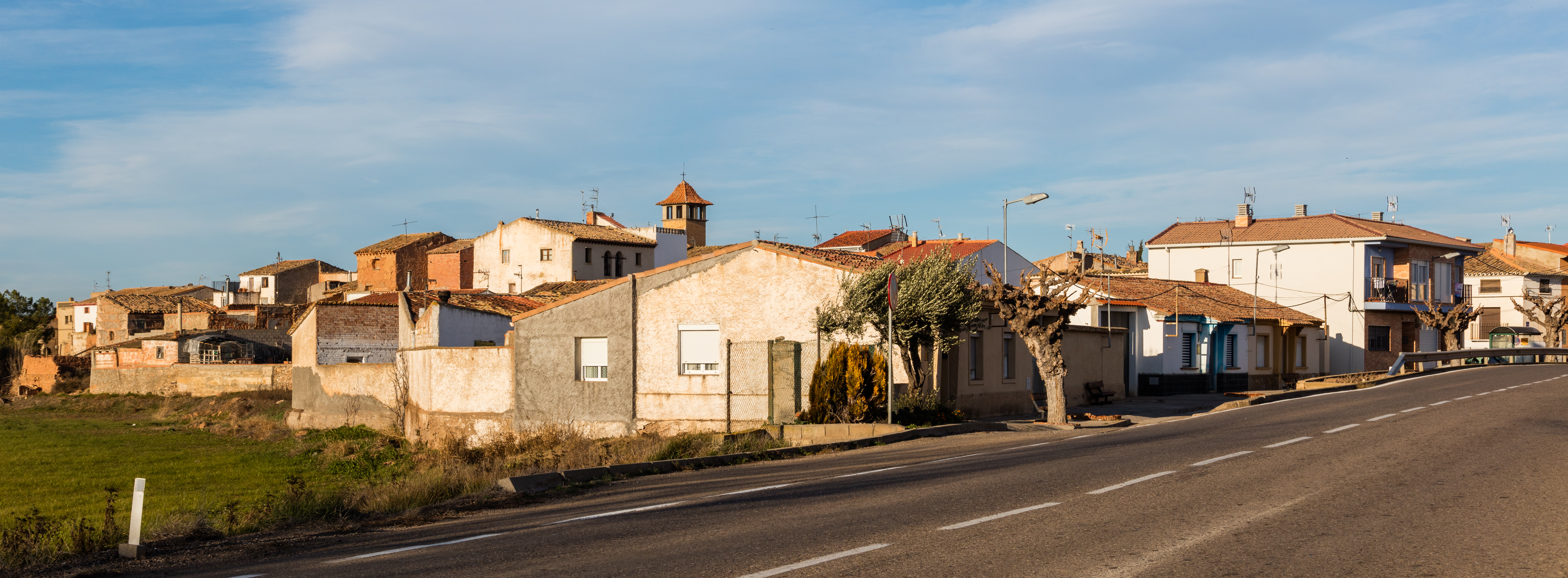 Lucena de Jalón, Zaragoza, Spain